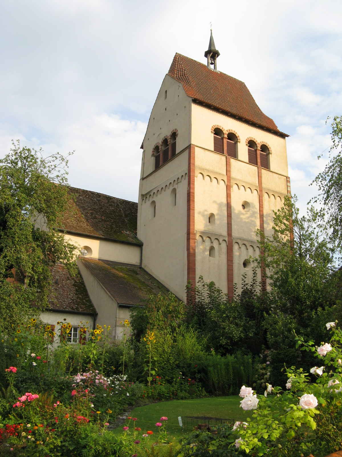 Church of the monastery Reichenau - tower